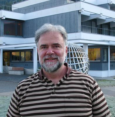 Andras Sebo at the Mathematical Research Center in Oberwolfach, 2011